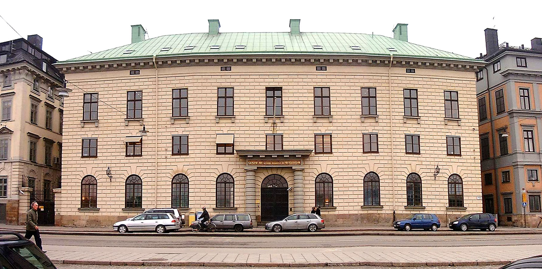 Façade of Tullhuset on Skeppsbron, Gamla stan, Stockholm. Composite of three images, fit less than perfect.